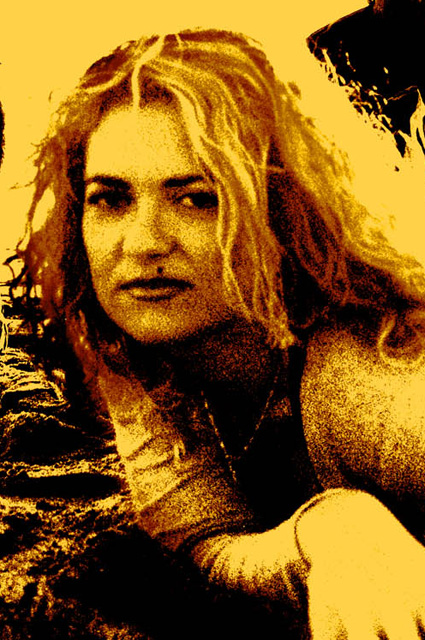 Melindi Charle, a South African singer.